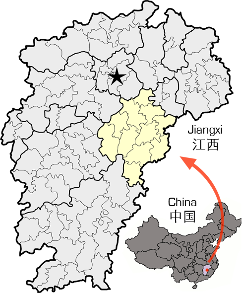 Map showing location of Fuzhou in Jiangxi Province China